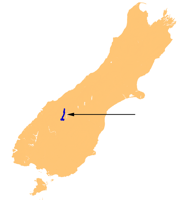 Location map of Lake Wanaka, Queenstown Lakes District, Otago, South Island, New Zealand